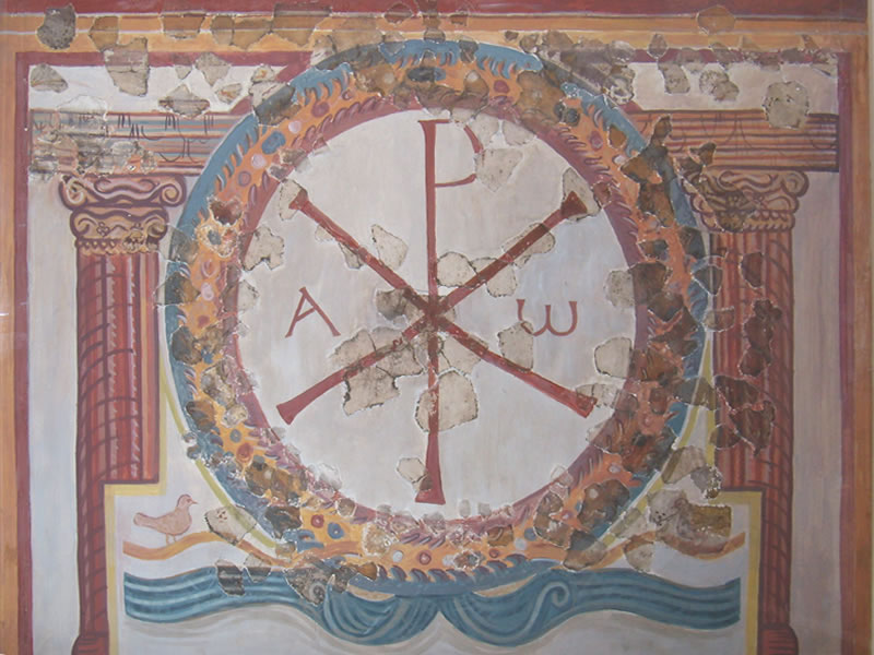 Modern restoration of the fresco containing the Christian symbol of the Chi Rho from the Roman Villa at Lullingstone, now at the British Museum, London.